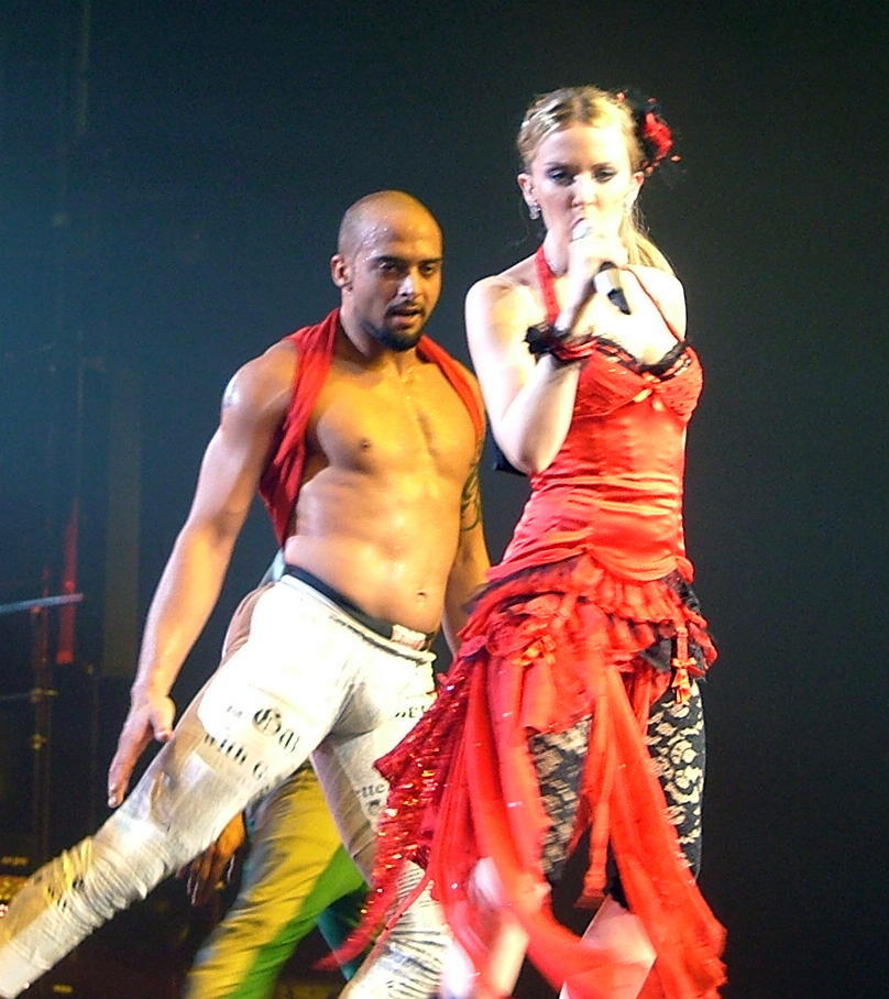 Kylie Minogue live in Paris - Spanish Kylie's - April 20th 2005